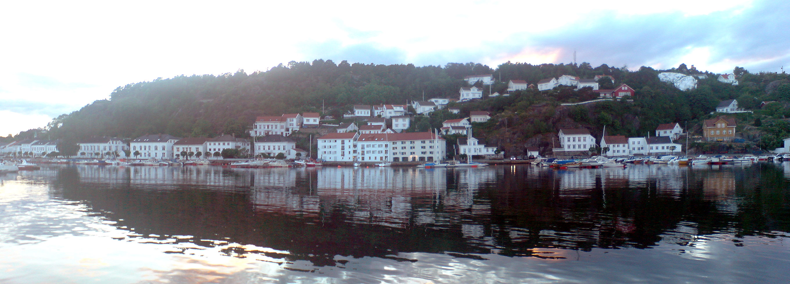 City of Risør